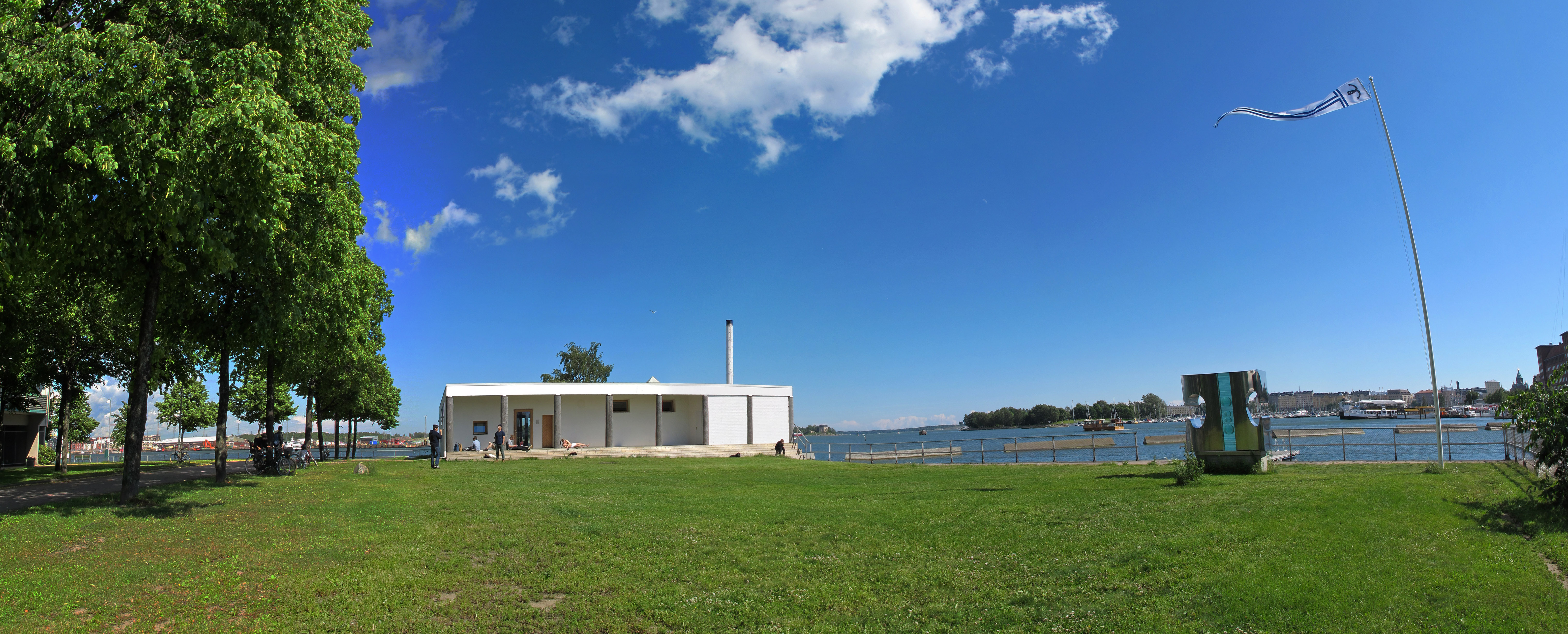 Kulttuurisauna, a public sauna located at Hakaniemi district, Helsinki, Finland. Mail address: Hakaniemenranta 17, 00530 Helsinki.